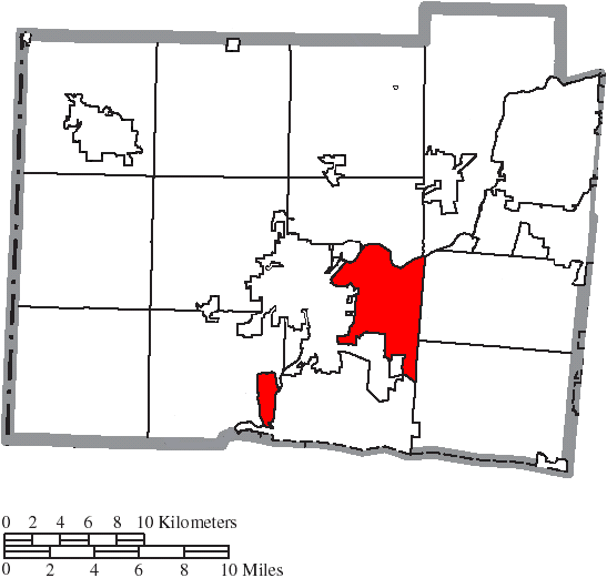 Map of the municipal and township boundaries of Butler County, Ohio, United States, as of the 2000 census, with the location of Fairfield Township highlighted. Township borders are shown only in unincorporated areas in order to differentiate incorporated and unincorporated areas more clearly.